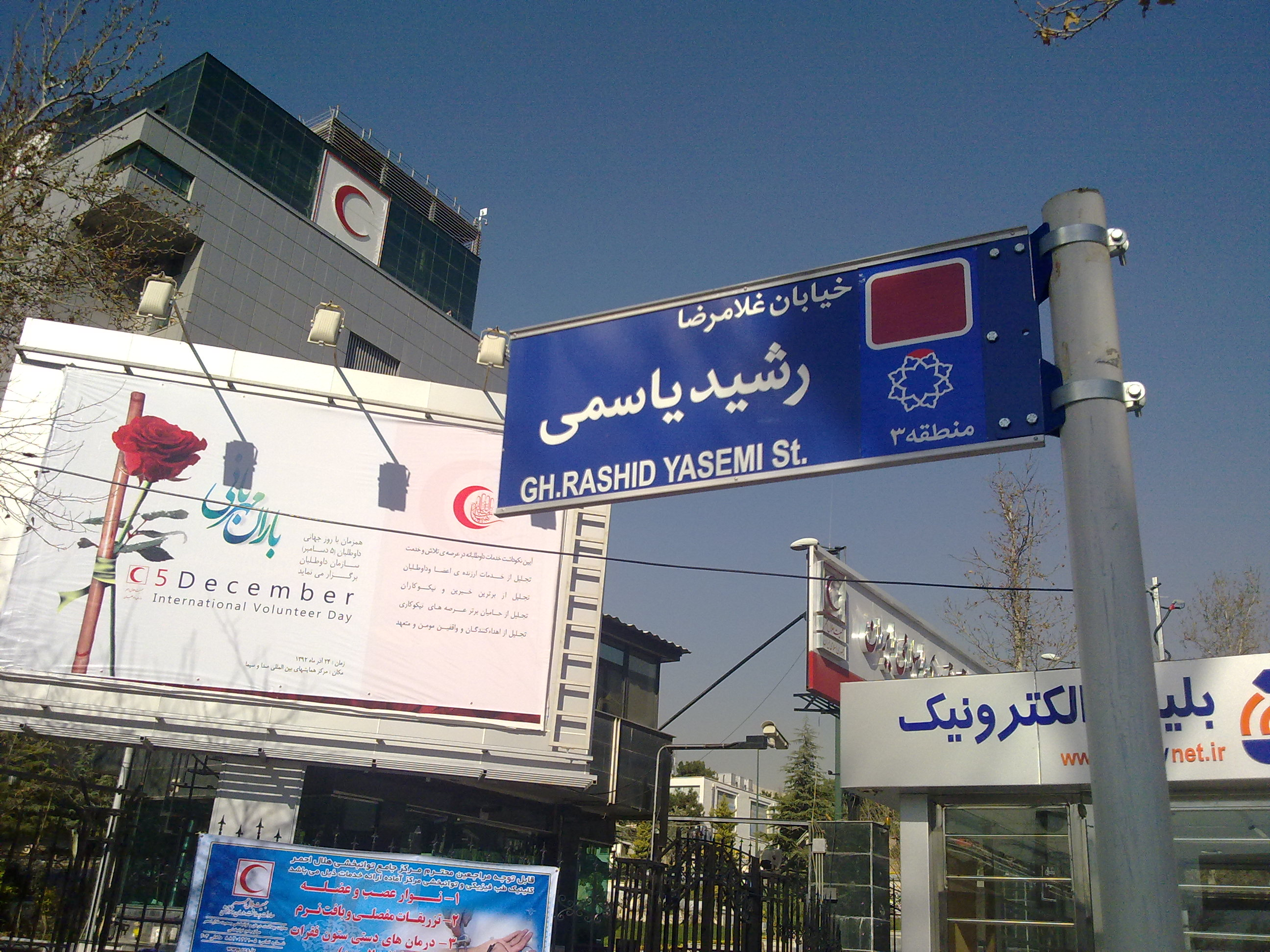 The signpost of Qolamreza Rashid-Yasemi Street in Tehran, which named in memorial of him.